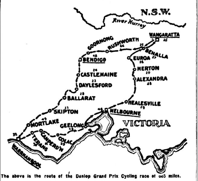 A map showing each town and all four stages of the Dunlop Grand Prix a bicycle race held in 1934